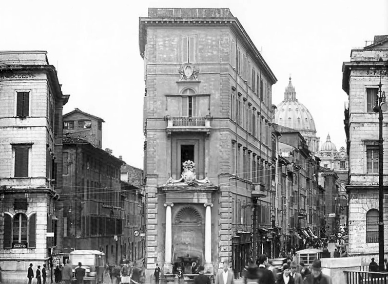 Piazza Pia in rione Borgo, at the east end of the Spina di Borgo, before its destruction in 1936. The two roads are Borgo Vecchio (left) and Borgo Nuovo (right)